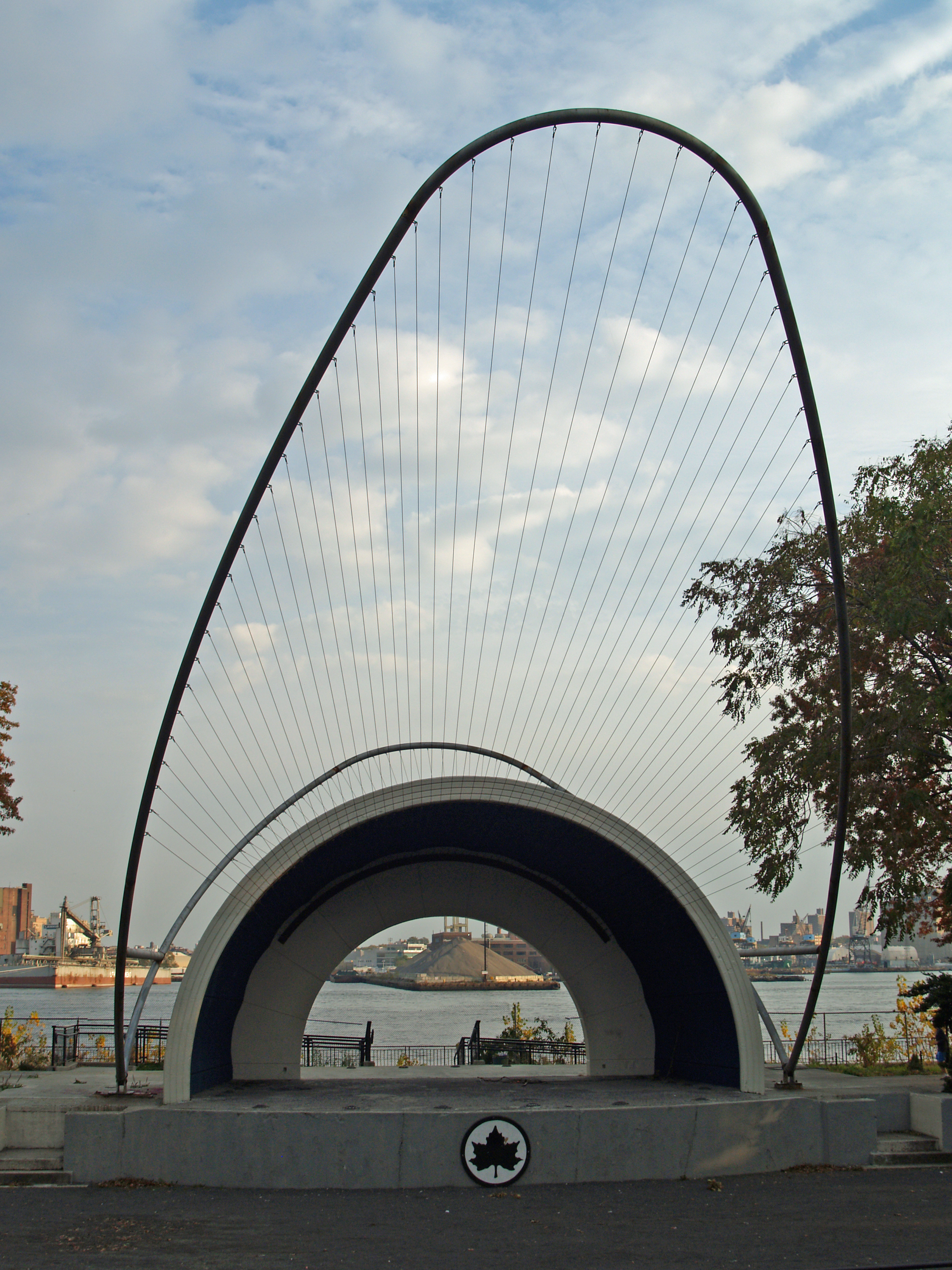 New York City's East River Park in Manhattan's East Village in the Fall of 2008.